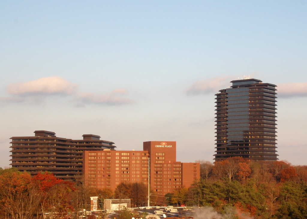 Ravinia complex, Atlanta, Dunwoody, GA